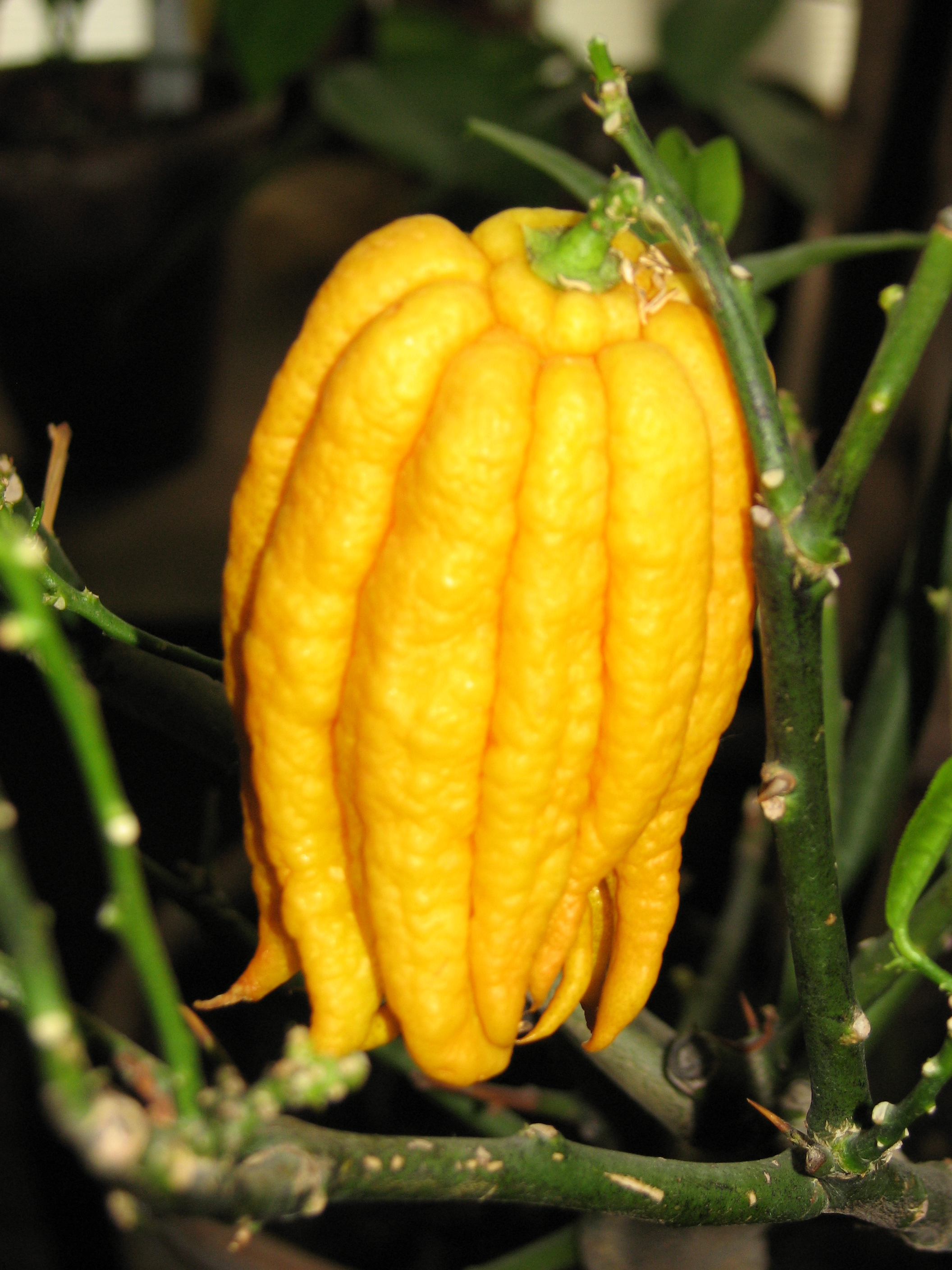 Greenhouse in the "Aptekarsky Ogorod" (Botanical Garden of Moscow State University) on Prospekt Mira, Moscow. Citrus medica var. sarcodactylis